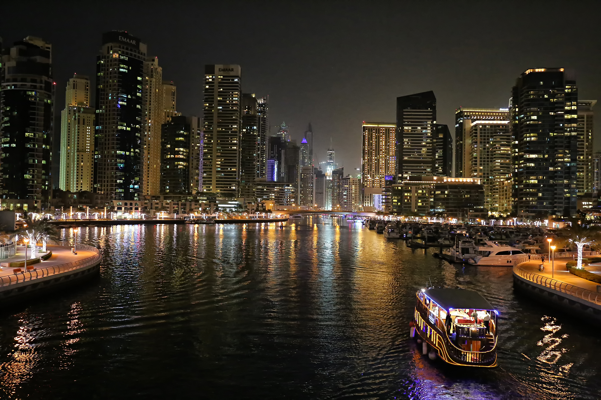 Dubai Marina (Arabic: مرسى دبي) is a district in Dubai, United Arab Emirates. Dubai Marina is an artificial canal city, built along a two-mile (3 km) stretch of Persian Gulf shoreline.